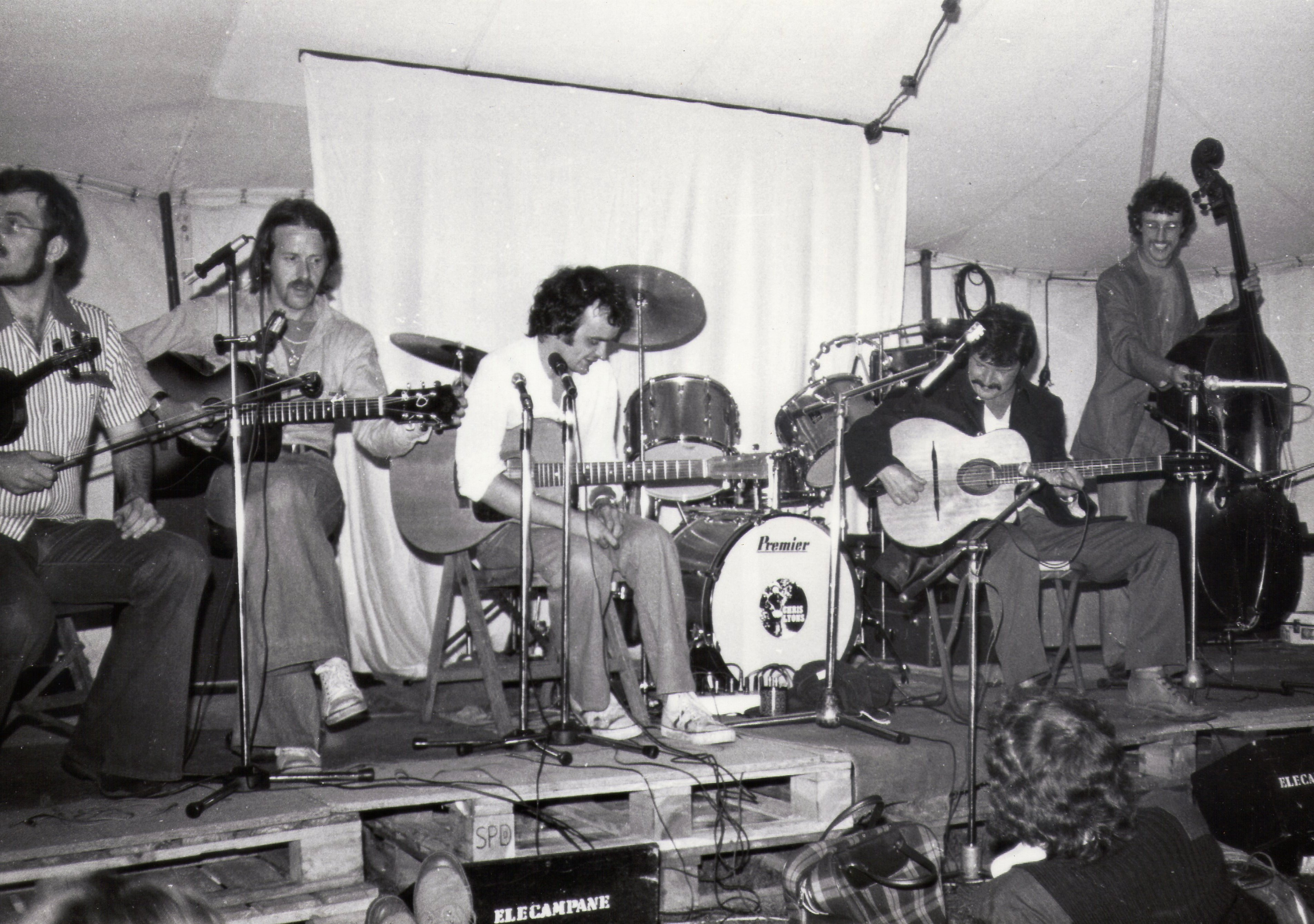 Guitarist Diz Disley (right of centre) jams with Chris Newman's group on the second stage at the 1977 Cambridge Folk Festival (Tony Rees photograph). L-R: Mike Evans, violin; Mike Ring, guitar; Chris Newman, guitar; Diz Disley, guitar; Henry Davies, double bass.